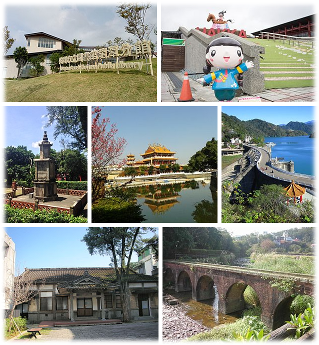 Montages of Longtan District, Taoyuan City